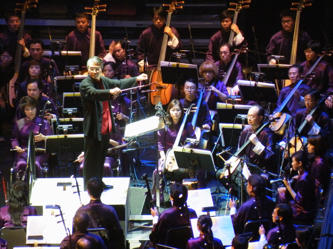 2009 East Asian Games Closing Ceremony - Hong Kong Chinese Orchestra